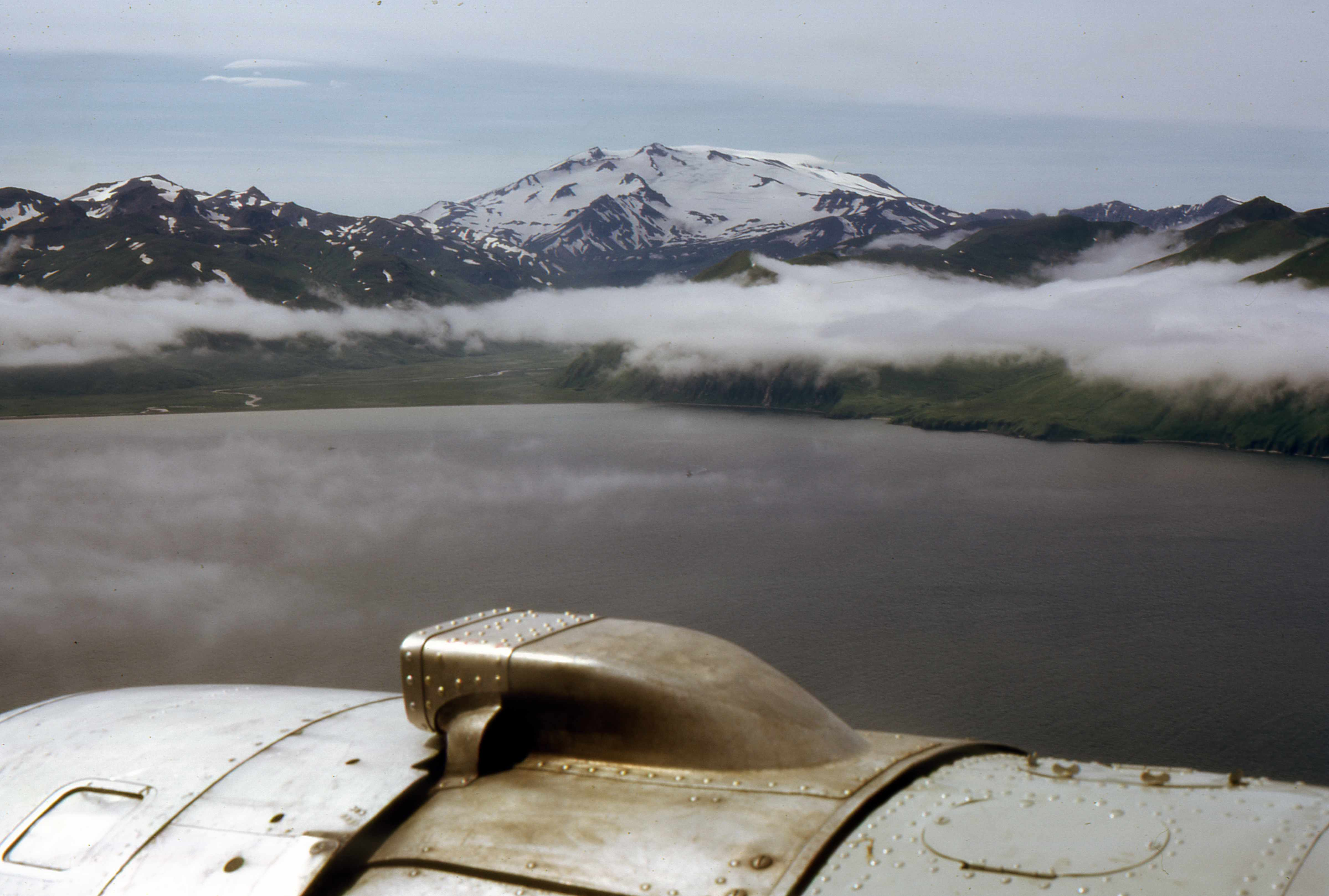 United States of America, Alaska. Unalaska Island and the sight of Makushin Volcano while approaching to Unalaska Airport situated at Dutch Harbor on Amaknak Island. The picture is taken from a Reeve Aleutian Airways Douglas DC-3 flying over Unalaska Bay.